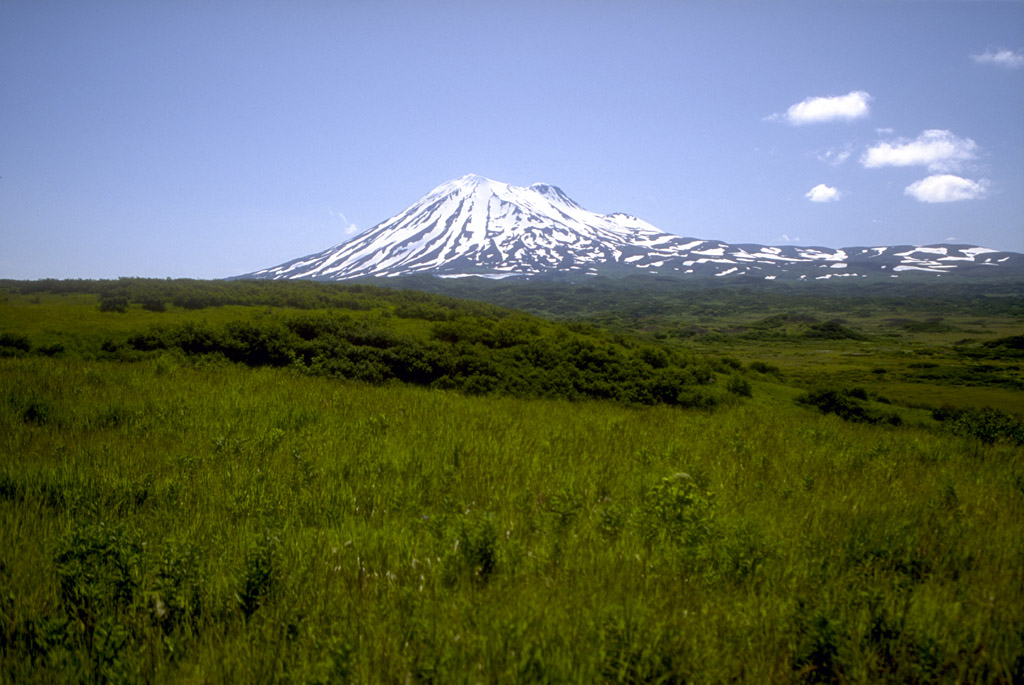 "Peulik volcano, a 1,474-m (4,836 ft)-high stratovolcano, as viewed from the Ukinrek Maars on the south shore of Becharof Lake on the Alaska Peninsula. In the middle distance is hummocky ground that probably represents debris-avalanche deposits from an older Peulik stratovolcano. Photograph by C. Neal, U.S. Geological Survey, June 25, 1993. Image courtesy of AVO / U.S. Geological Survey. Please cite the photographer and the Alaska Volcano Observatory/U.S. Geological Survey when using this image."